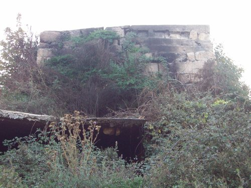 fort of labweh